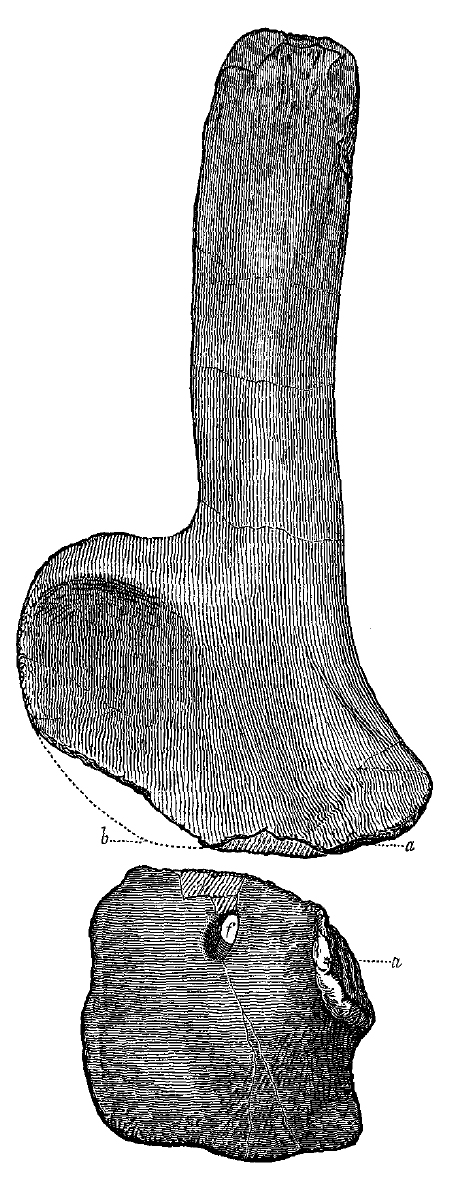 Left scapula and coracoid of Apatosaurus ajax Marsh; one-fourteenth natural size. a. scapular face of glenoid cavity; b. rugose surface for union with coracoid; a' coracoidean part of glenoid cavity; f foramen in coracoid.